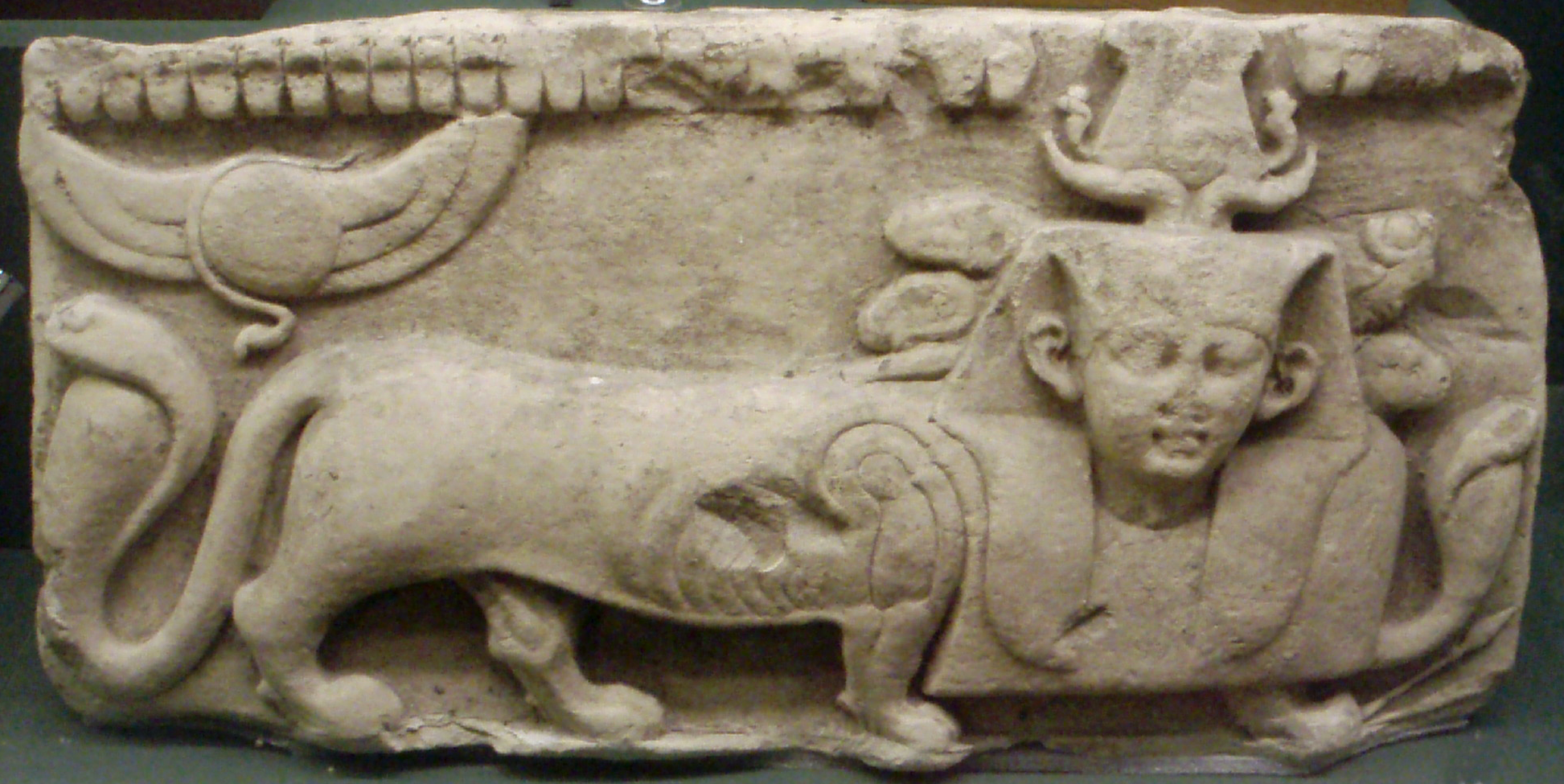 A relief depicting the god Tutu, a protector of soldiers. He wears the nemes headdress of a king, has a human face, the body of a lion, the tail of a cobra and he stomps on arrows.